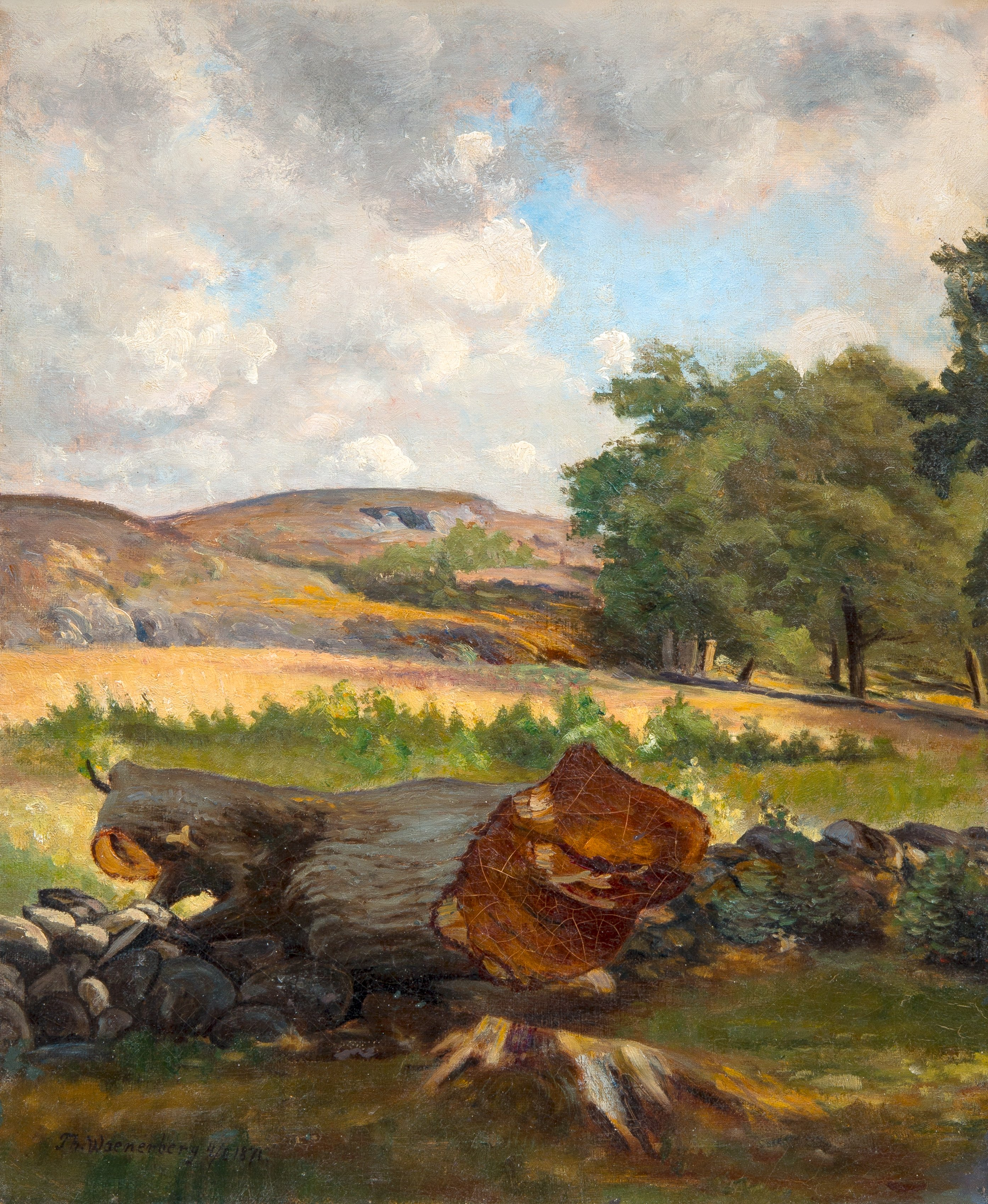 Thorsten Waenerberg: Fallen tree, signed August 4, 1871. Oil on canvas 46x38 cm.